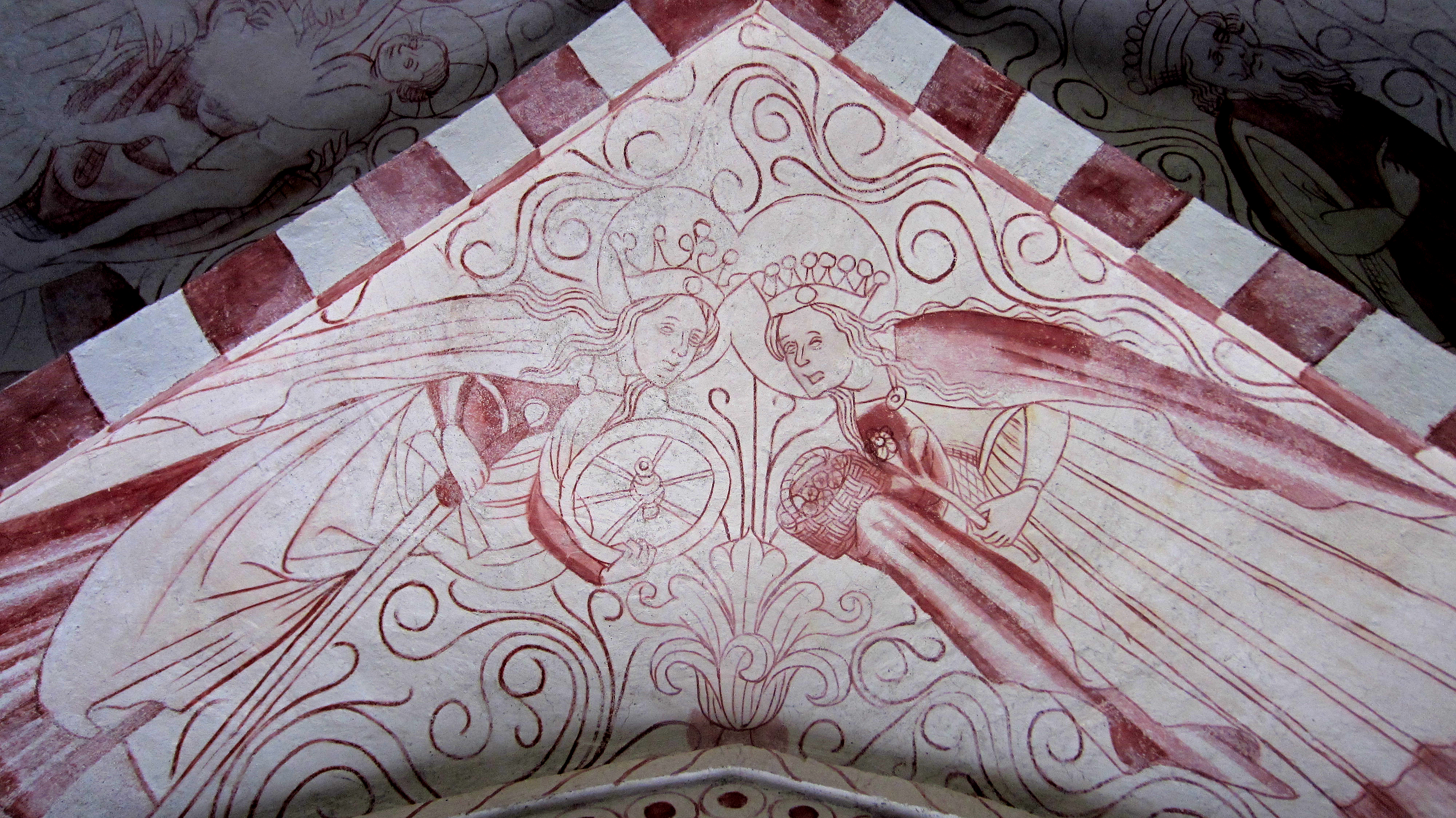 Wall paintings from about 1440 in Brönnestad church, Scania, Sweden.